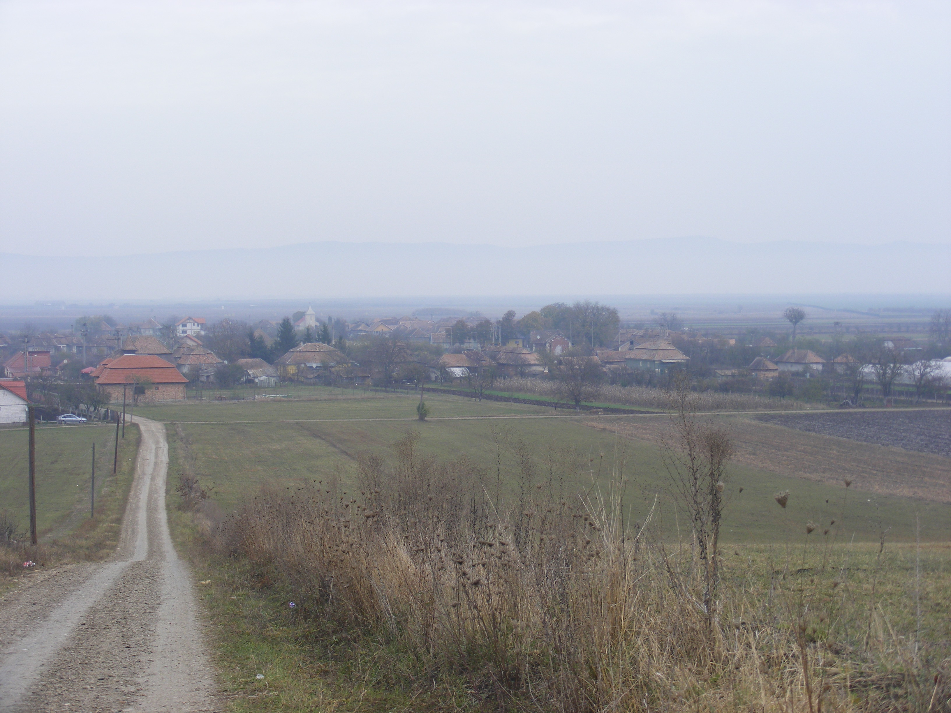 Wiew of Călărași-Gară, Romania, Cluj County.